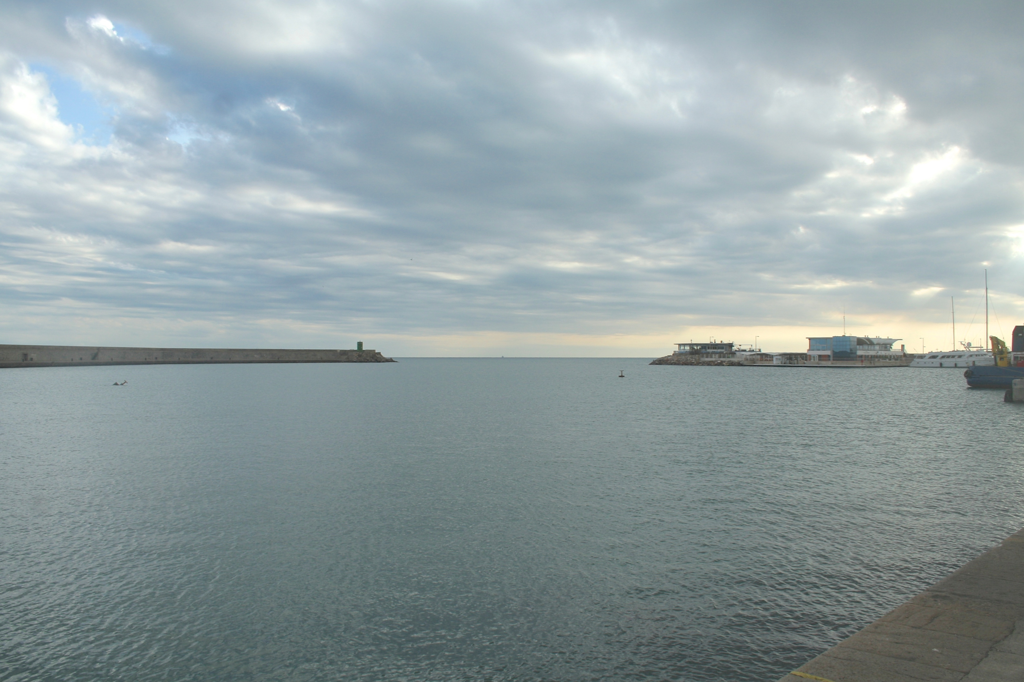 Harbour Burriana